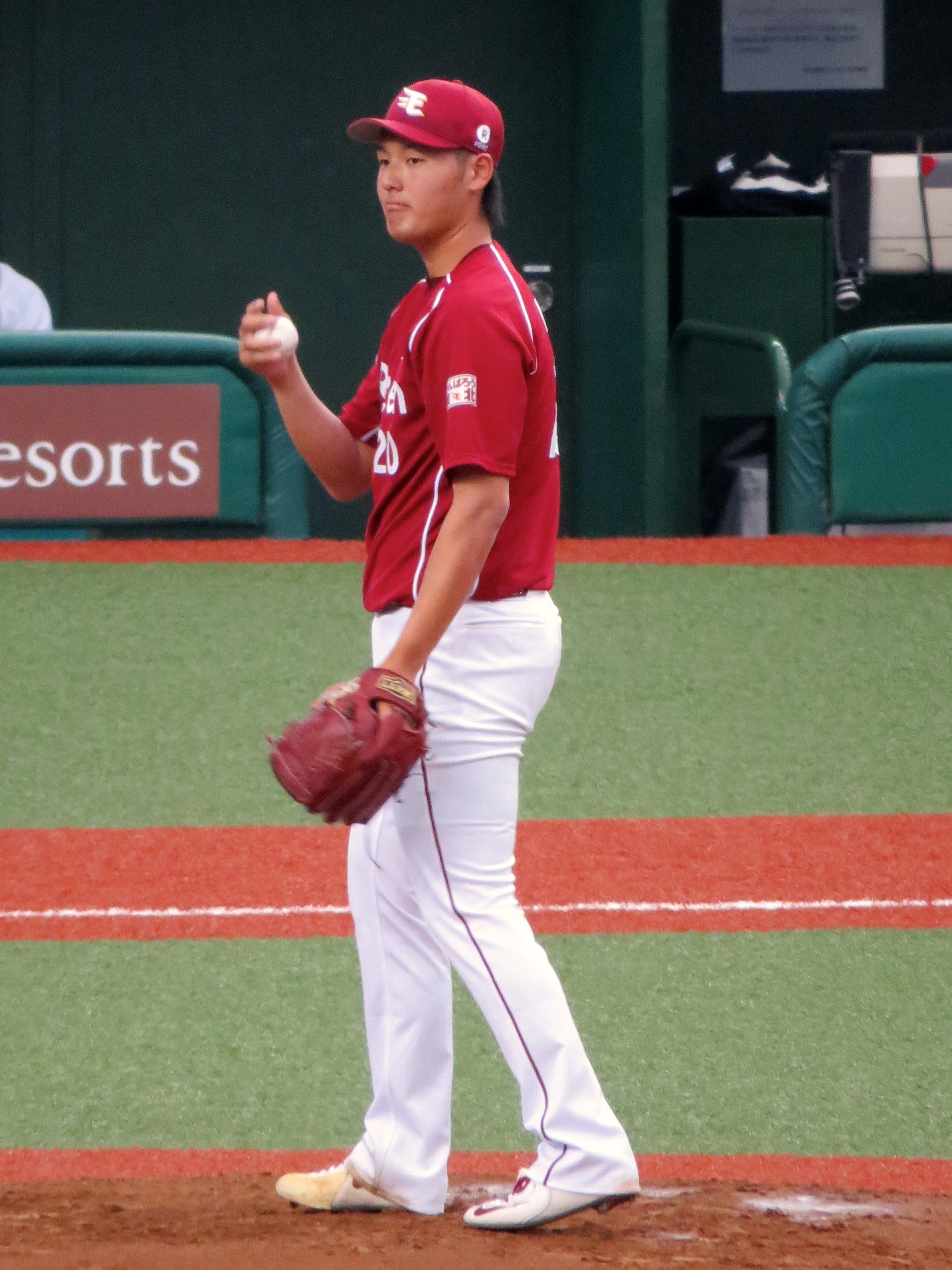 Tomohiro Anraku, pitcher of the Tohoku Rakuten Golden Eagles, at Seibu Dome